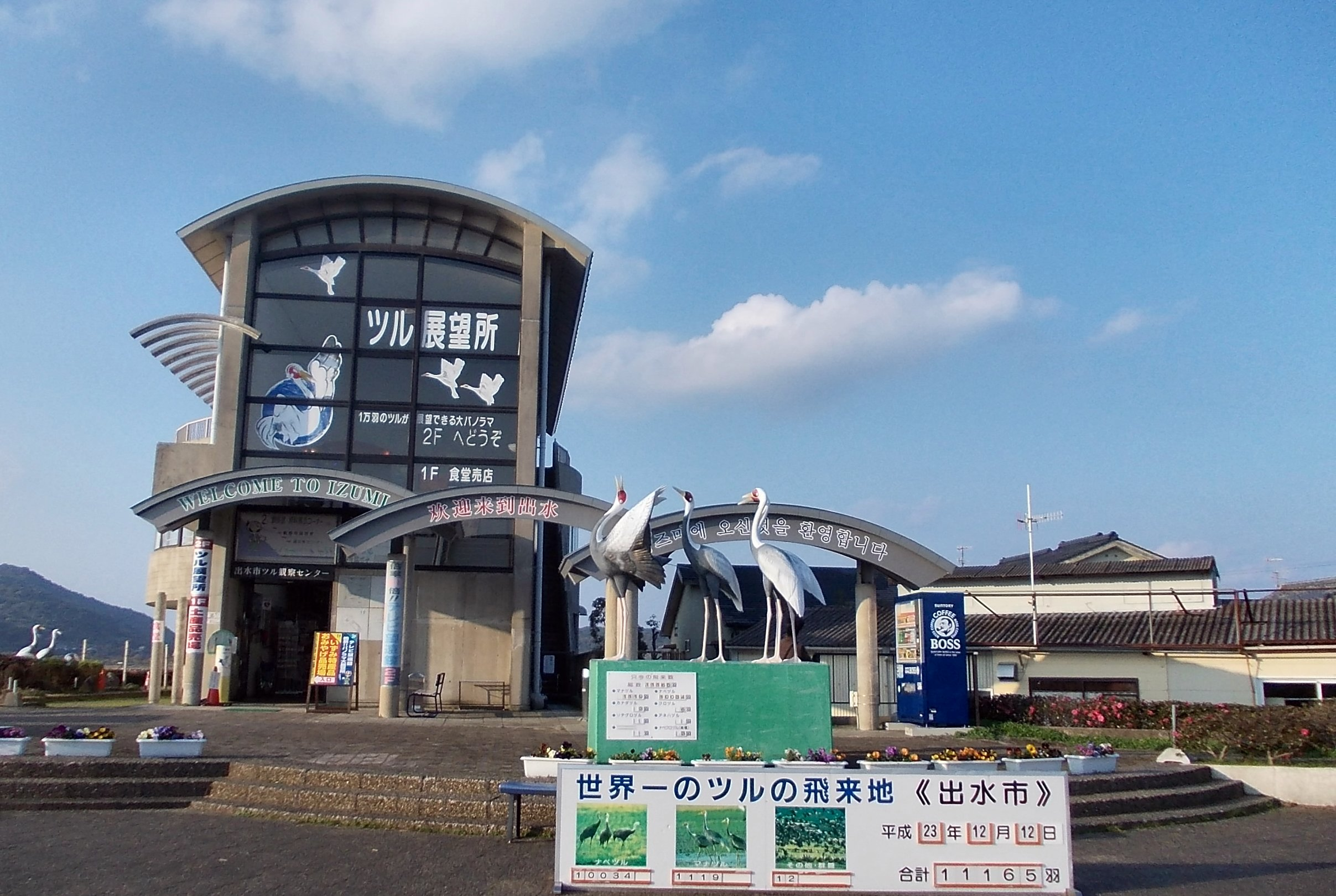 Izumi Crane Migration Grounds Observatory